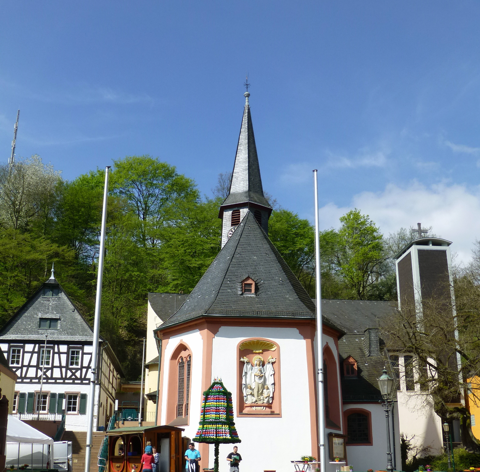 Church of Frauenstein, the western suburb of Wiesbaden. Note the clock with Eastern eggs.